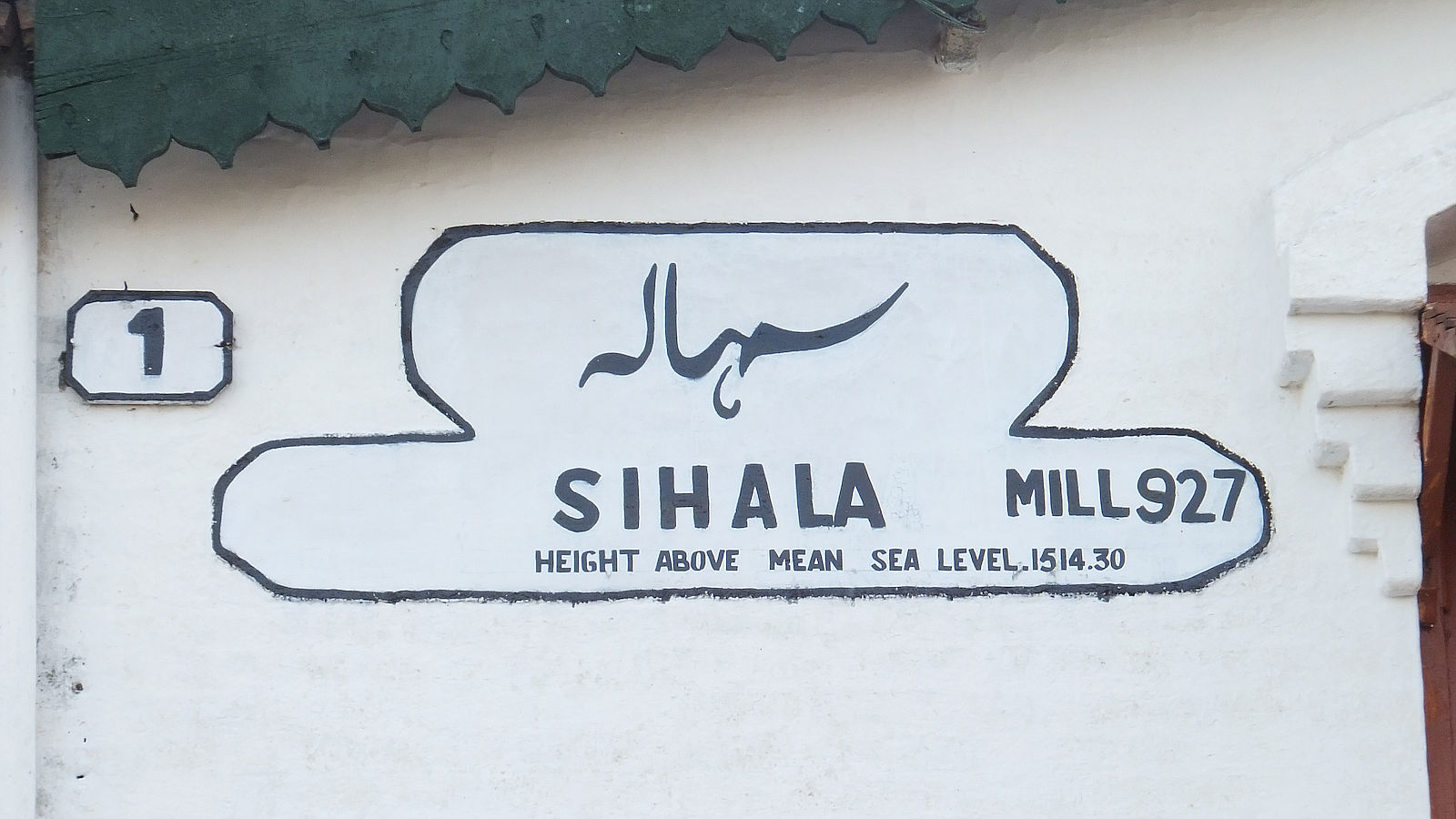 Sihala railway station tag on platform 1